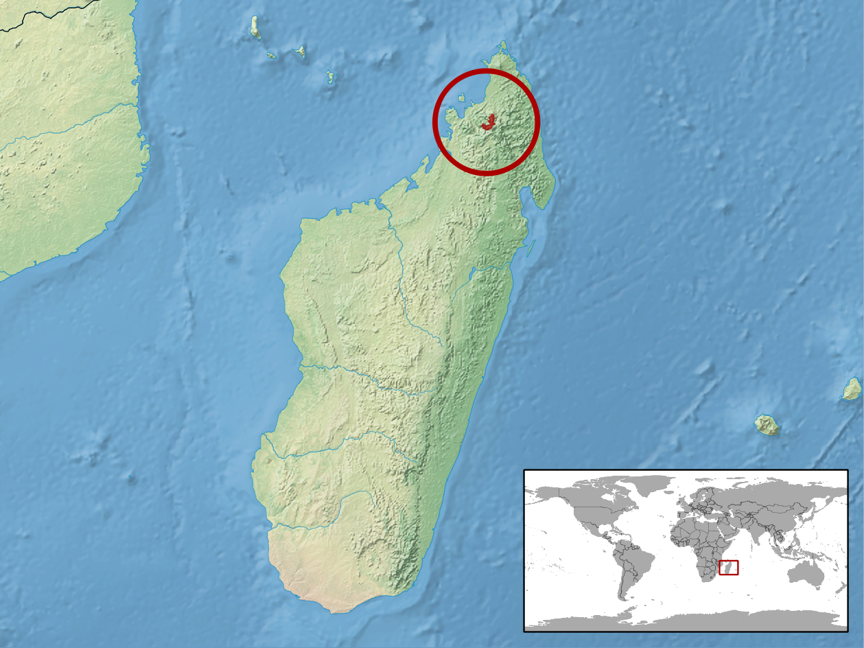 geographic distribution of Brookesia lolontany (Native: Madagascar)